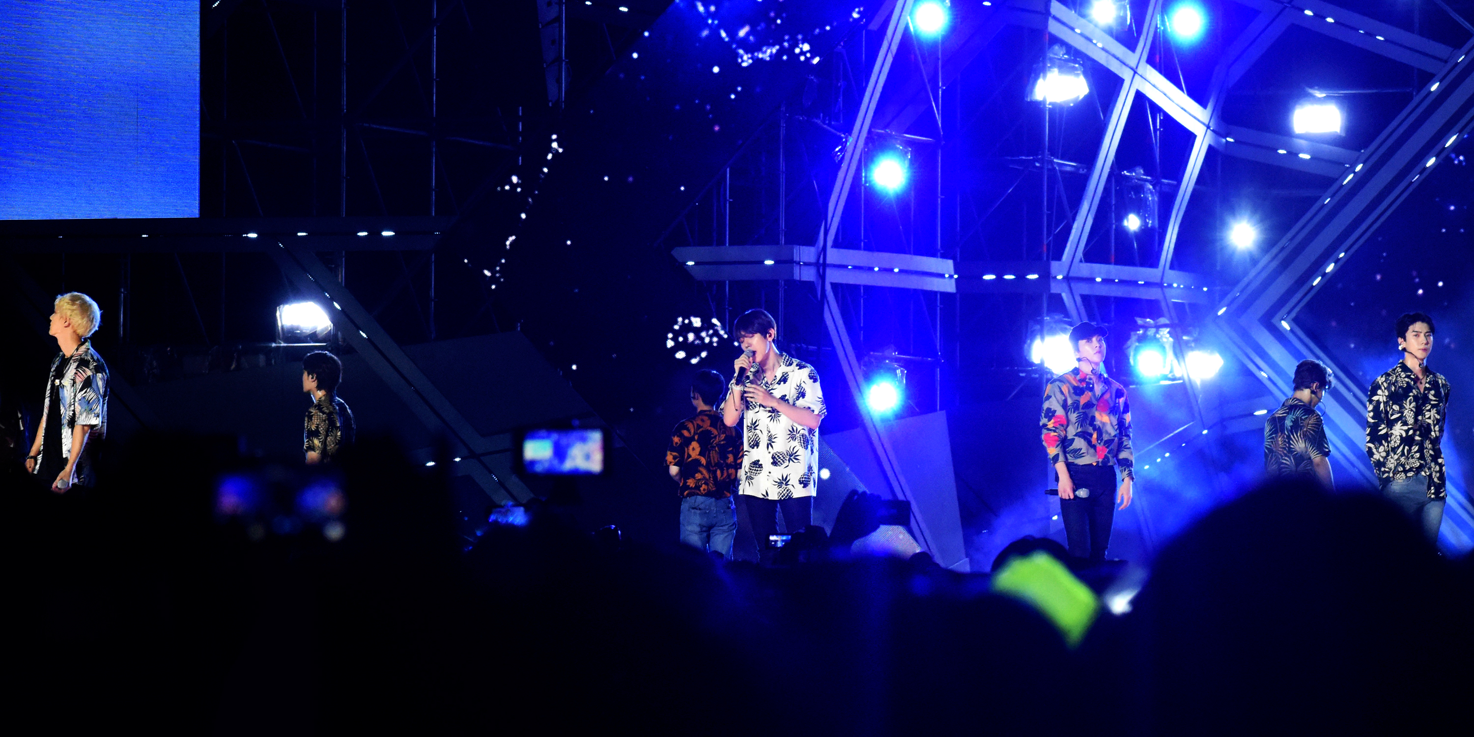 Exo at the 2018 Incheon Airport Sky Festival on September 2, 2018.